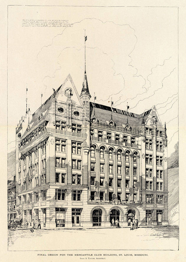 Isaac Taylor's Mercantile Club Building, St Louis (USA), from pre-1923 issue of Inland Architect and News Record.